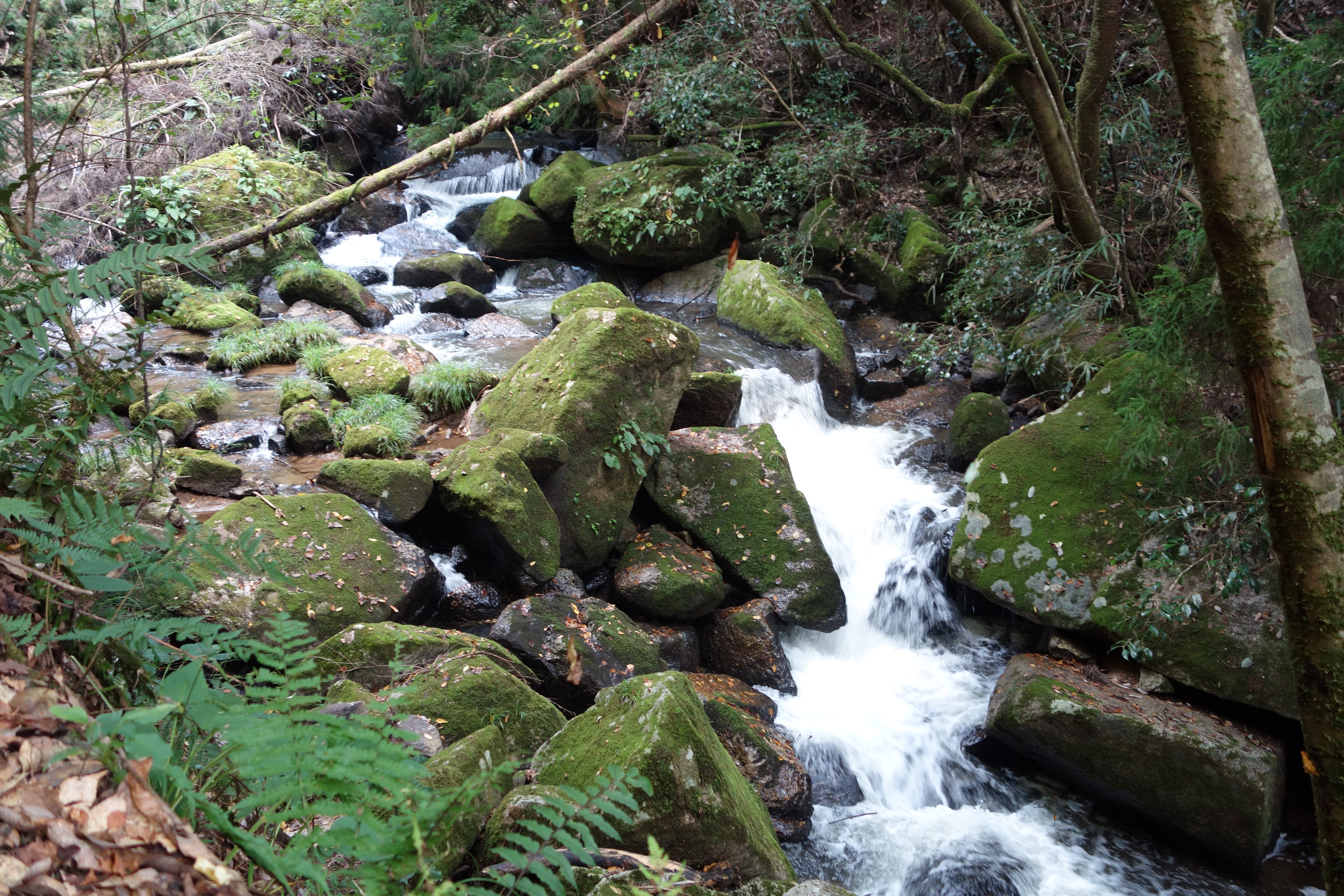 1.Hatsune no taki(waterfall) in Kōyama, Shigaraki, Koka, Shiga, Japan